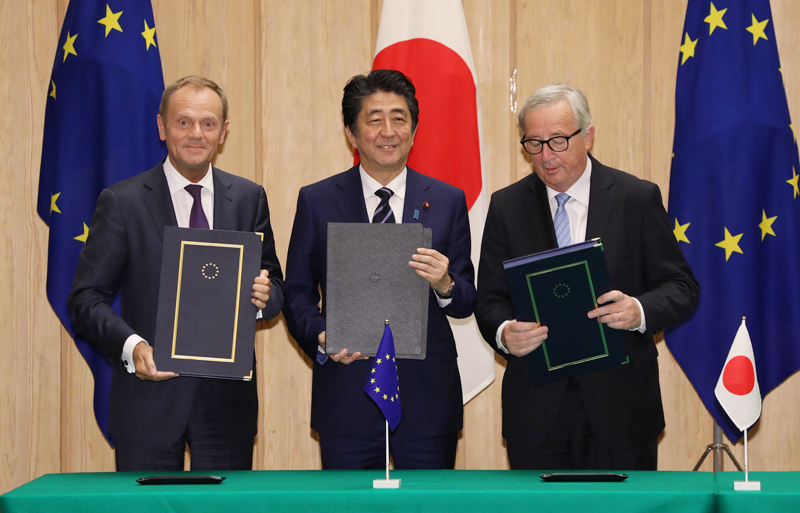 President of the European Council Donald Tusk, Prime Minister of Japan Shinzō Abe and President of the European Commission Jean-Claude Juncker shortly after signing the EU-Japan Economic Partnership Agreement.